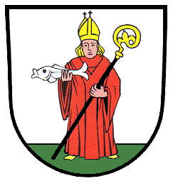 Coat of arms of Nordrach